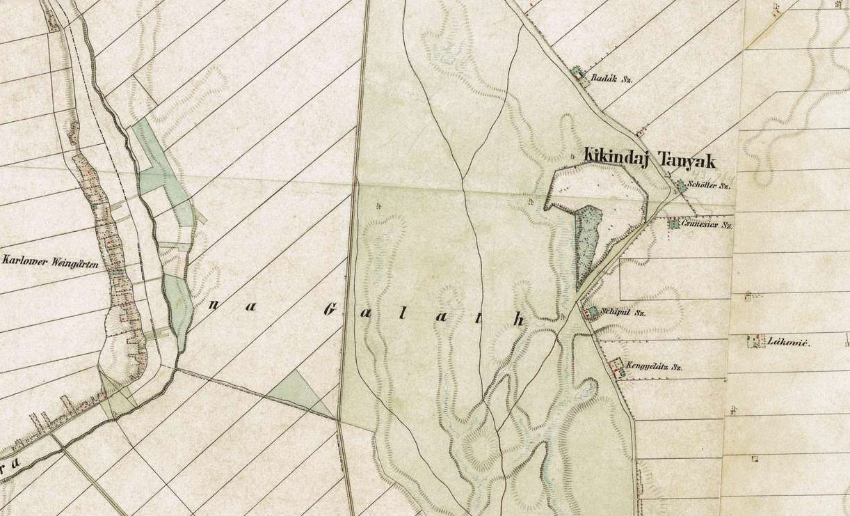 Galad, portion of map from the 2nd Military Survey of the Habsburg Empire